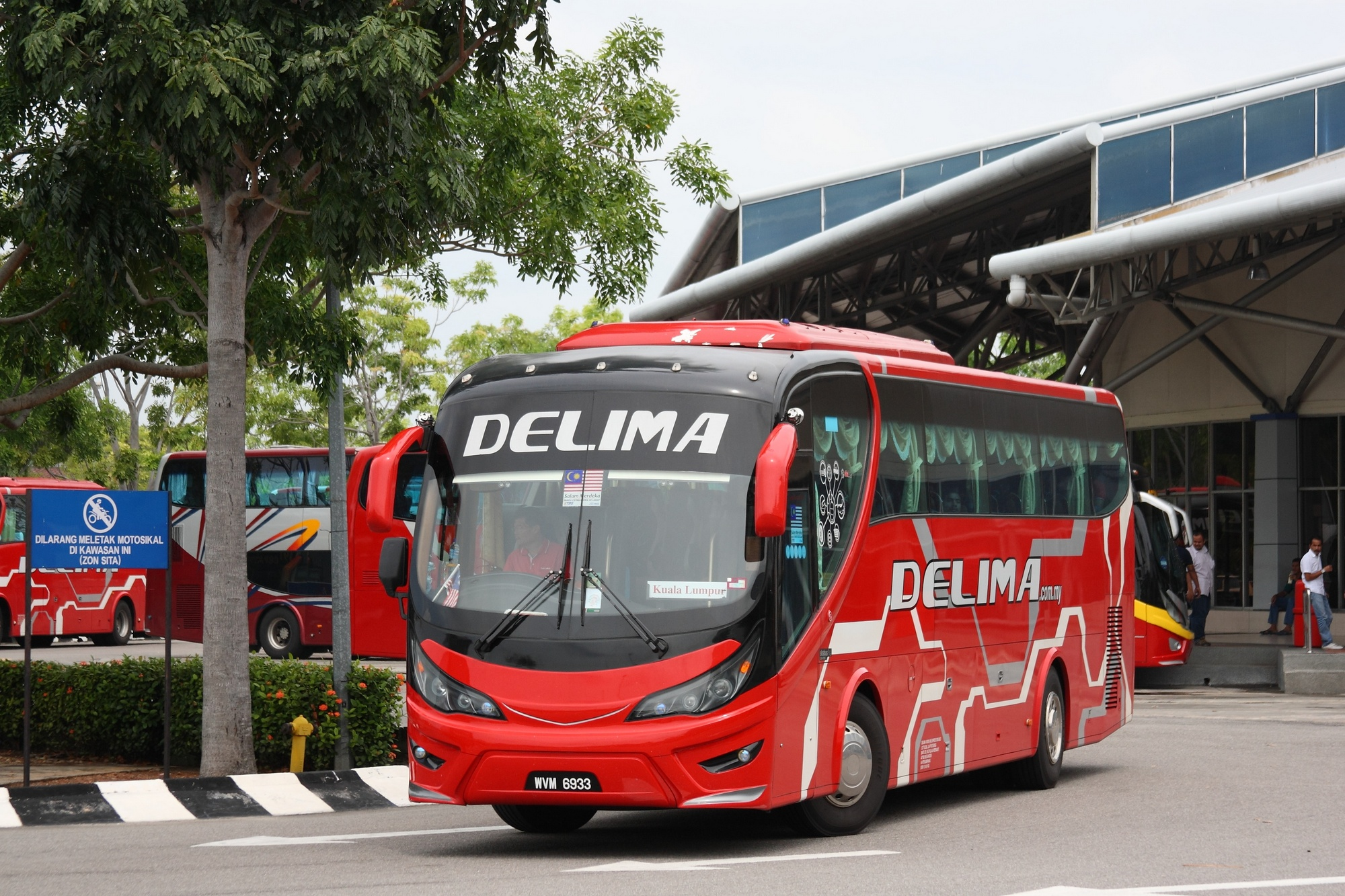 Intercity coach operated by Delima at Melaka Sentral, Malacca, Malaysia. Bodywork by sksbus, chassis unknown.